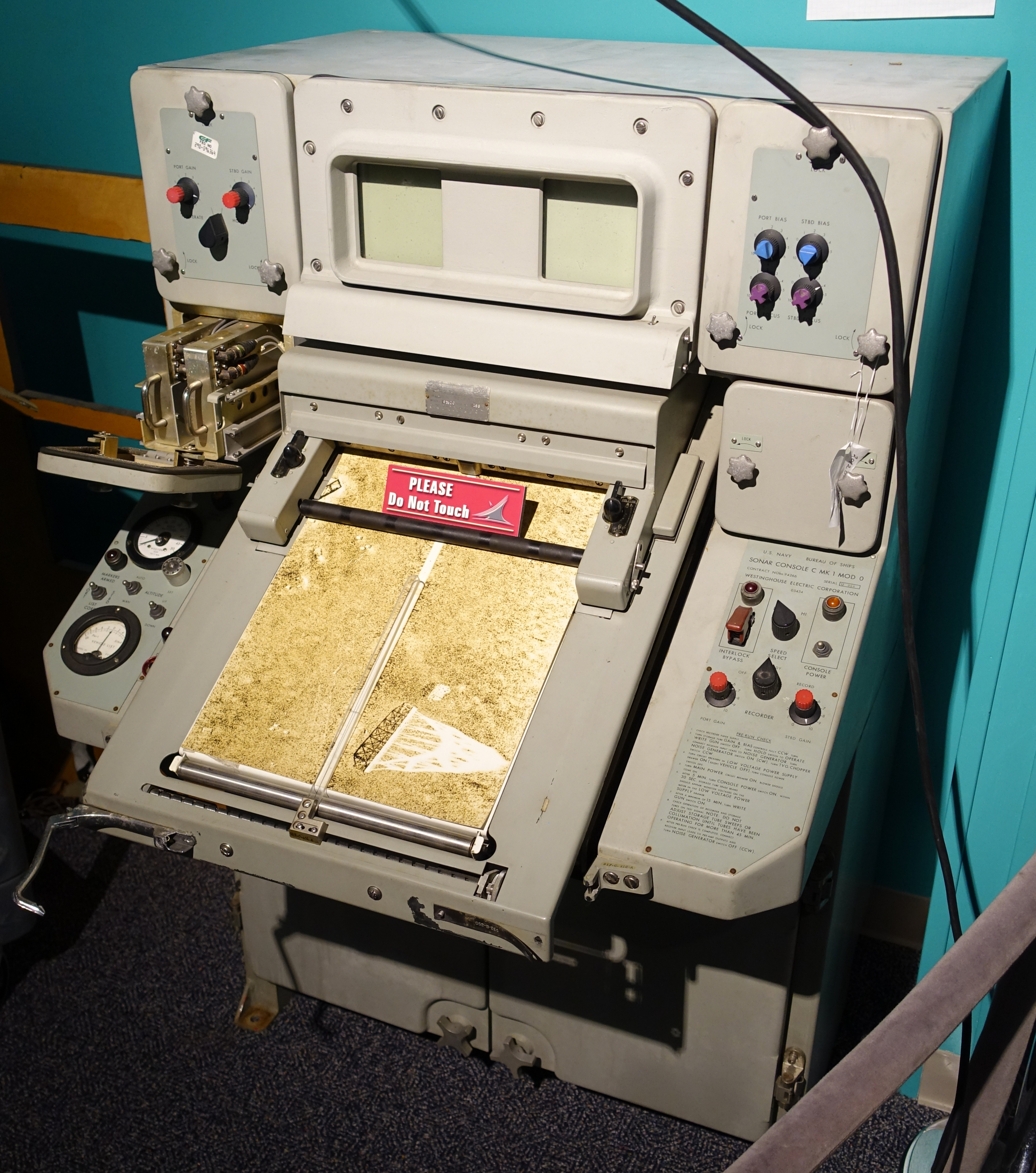 Exhibit in the National Electronics Museum, 1745 West Nursery Road, Linthicum, Maryland, USA. All items in this museum are unclassified. The museum permitted photography without restriction.